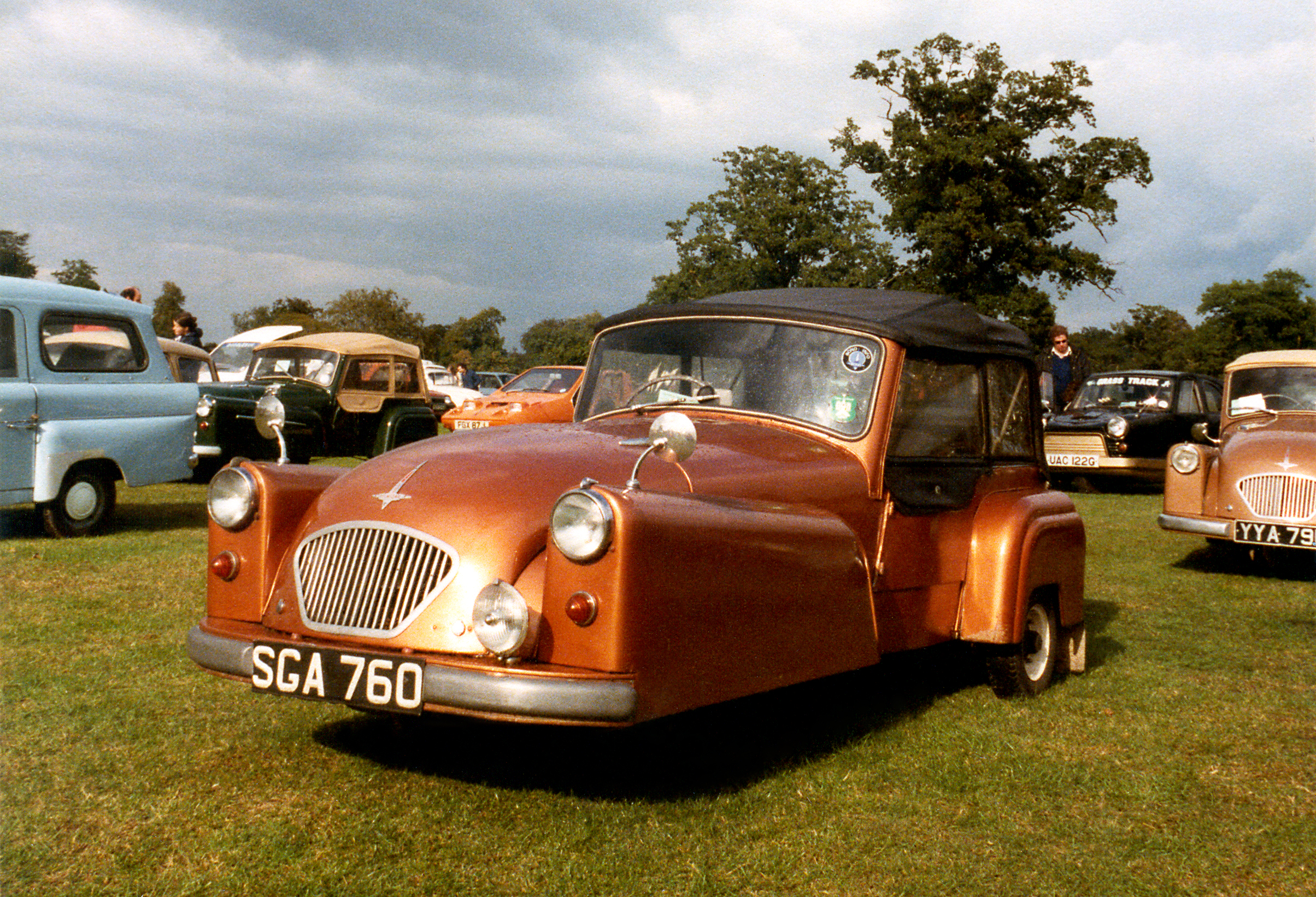 Bond Minicars and other Bond three wheelers at the 10th National Microcar Rally 23rd September 1984 at the Cotswold Wildlife Park, Burford